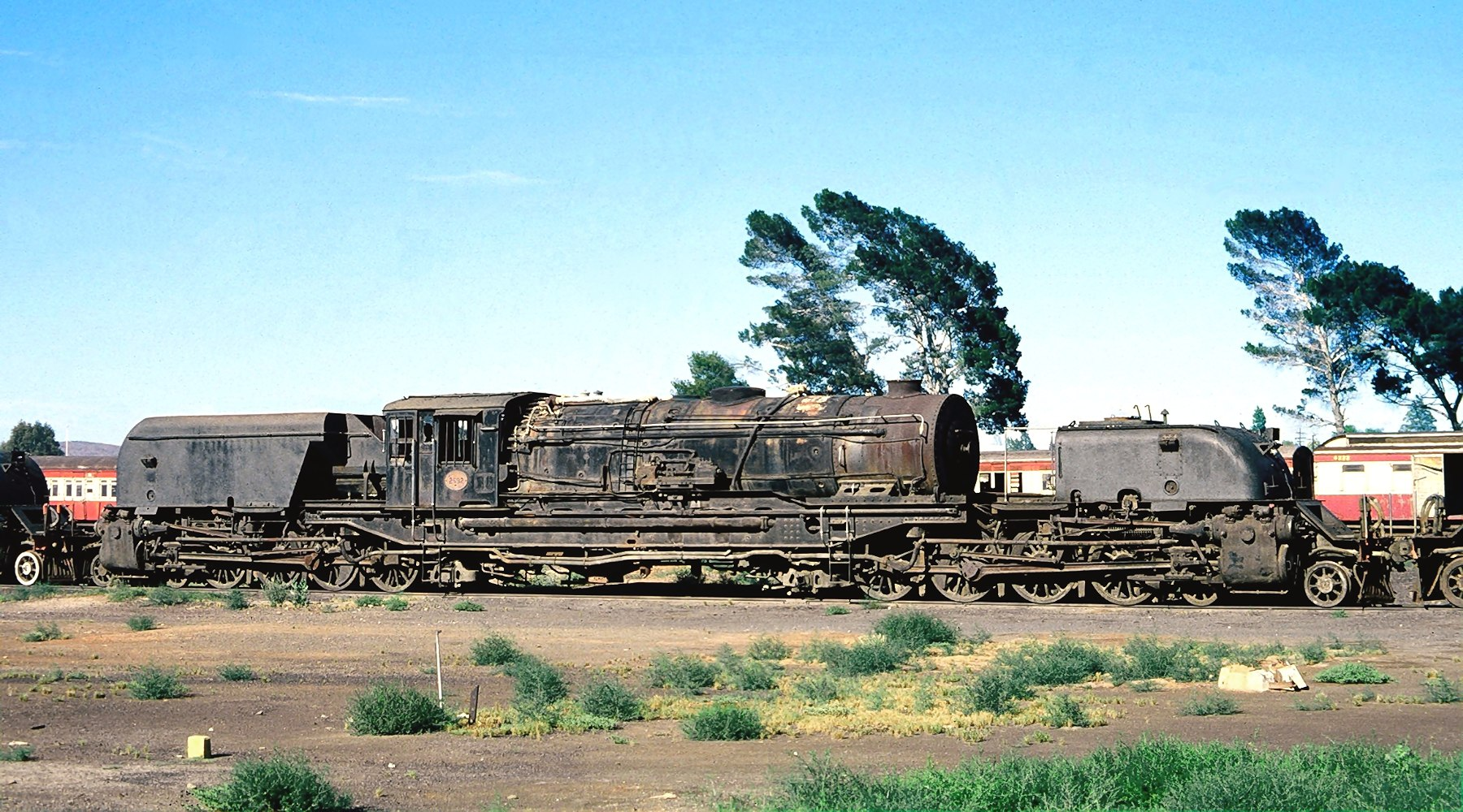 A Garratt type steam locomotive of SAR (South African Railways) class GO with number 2592 taken out of service at De Aar loco depot.